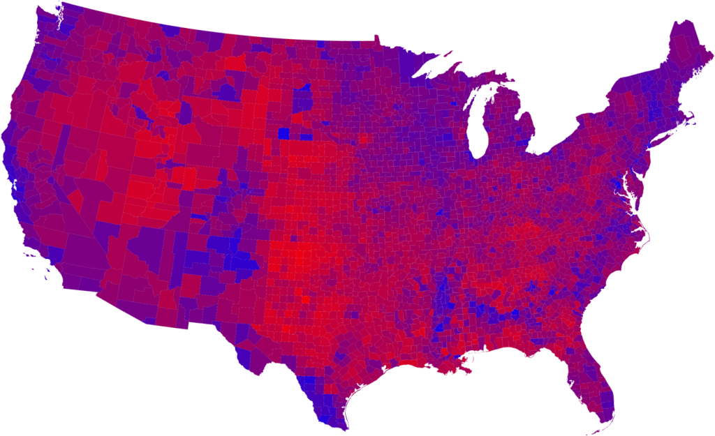 2008 popular vote by county. Brighter red represents a higher percentage of the vote for McCain, while darker blue represents a higher percentage of the vote for Obama